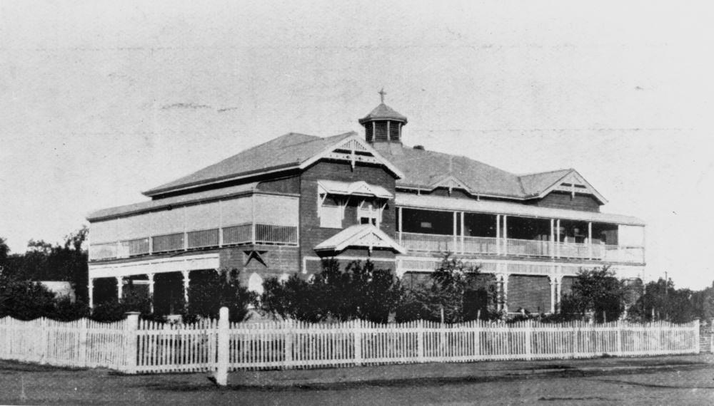 Convent at Goondiwindi, Queensland, 1924. The convent in Goondiwindi run by the Sisters of Mercy . It catered for both boarding and day students from Yr 1 to Yr 7.The old school building was used until December 1952, when the brick hall and classroom block were opened. In 1965 secondary schooling went to Yr 10. This department closed in 1972 and St Mary's continues as a primary school.